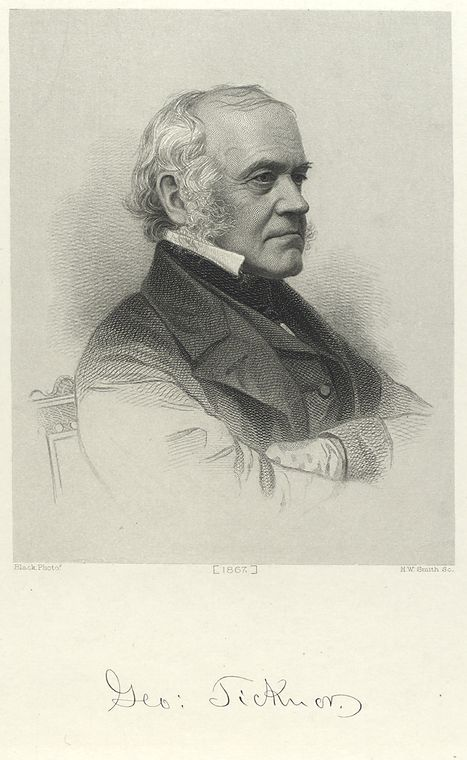 Engraved print of American academic George Ticknor with facsimile signature.